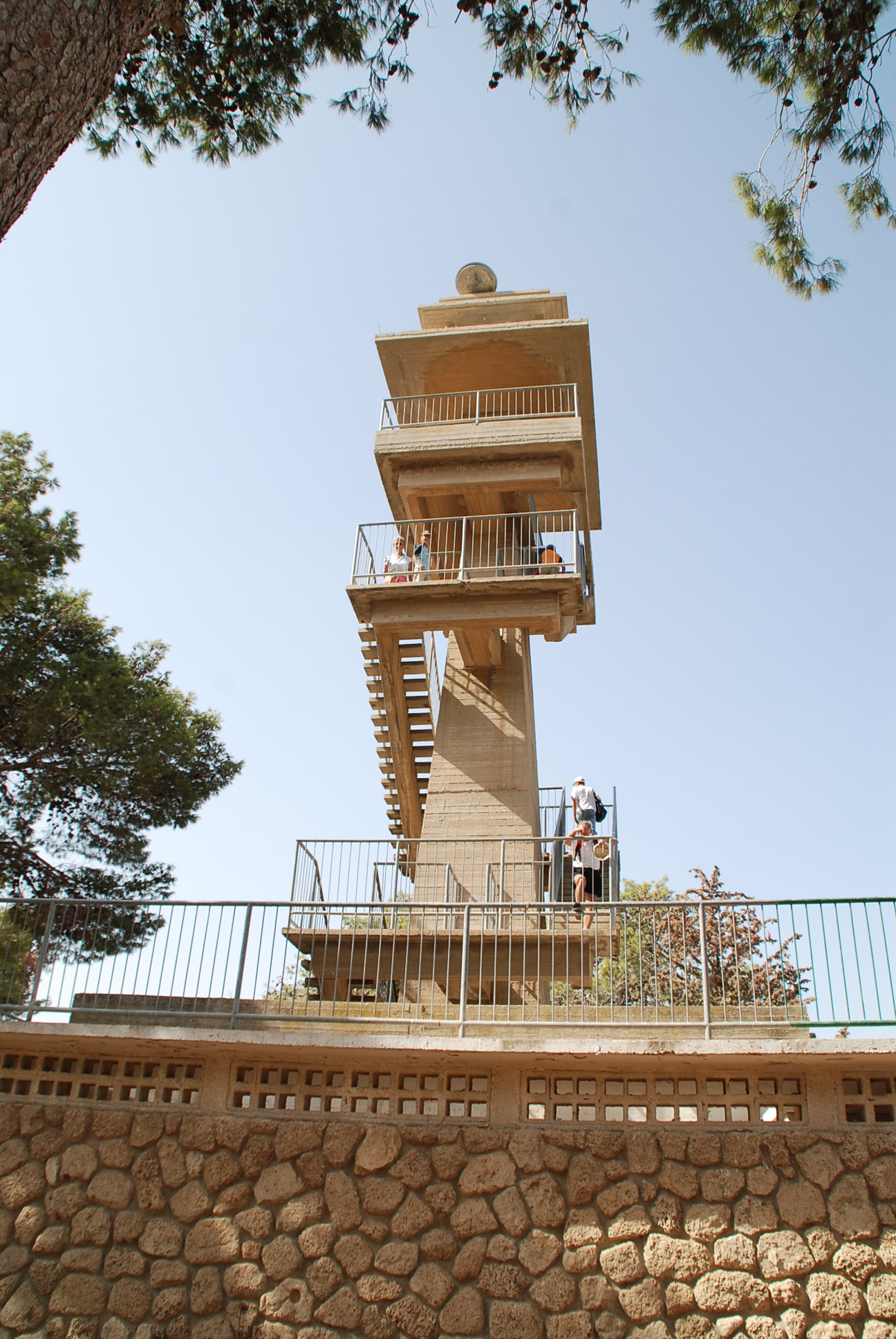 Ofer tower, Geography of Israel